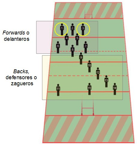 Rugby posiciones. Pilares